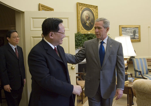 President George W. Bush meets with The State Councilor of China, Tang Jiaxuan, in the Oval Office Thursday, Oct. 12, 2006. White House photo by Kimberlee Hewitt